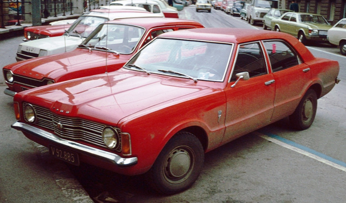 Ford Taunus 1970 - 76 prefacelift